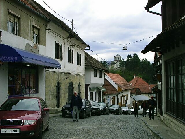 A street in the historic pat of the town of Tešanj, BiH